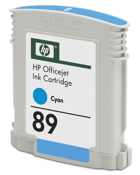 An HP 89 cyan ink cartridge